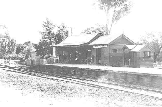 Homebush railway station as it stood in the 1890's. It was burnt out in the 1980's.